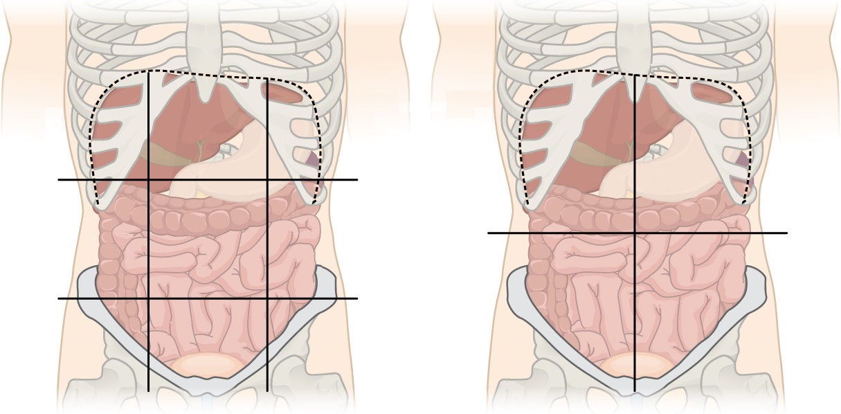 There are nine abdominal regions and four abdominal quadrants in the peritoneal cavity.